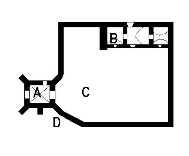 The Castle in Szydlowiec [Shidlovietz]